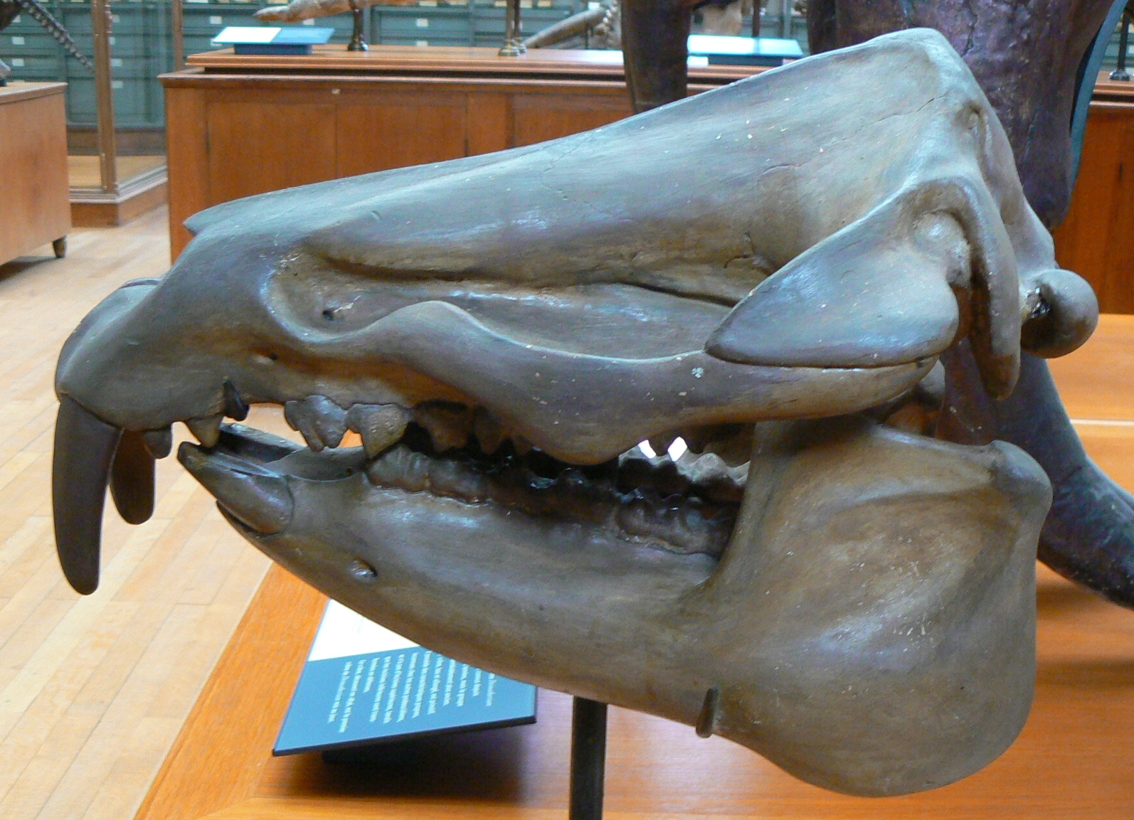 Moeritherium lyonsi, and extinct Probocidea member